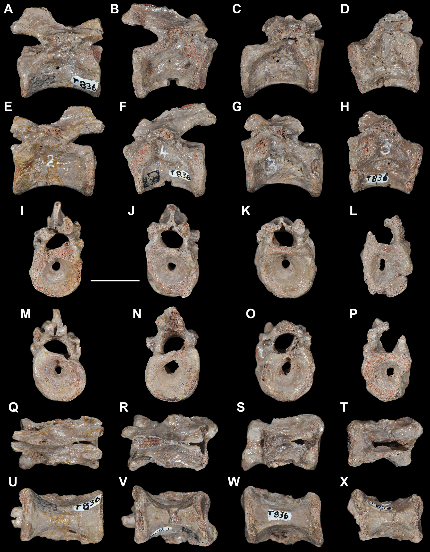 Aenigmastropheus parringtoni, an early archosauromorph from the middle Late Permian of Tanzania. Cervico-dorsal vertebrae (UMZC T836, holotype) in right lateral (A–D), left lateral (E–H), anterior (I–L), posterior (M–P), dorsal (Q–T) and ventral (U–X) views. Vertebrae 2 (A, E, I, M, Q, U), 3 (C, G, K, O, S, W), 4 (B, F, J, N, R, V) and 5 (D, H, L, P, T, X) sensu Parrington [8]. Scale bar equals 1 cm.